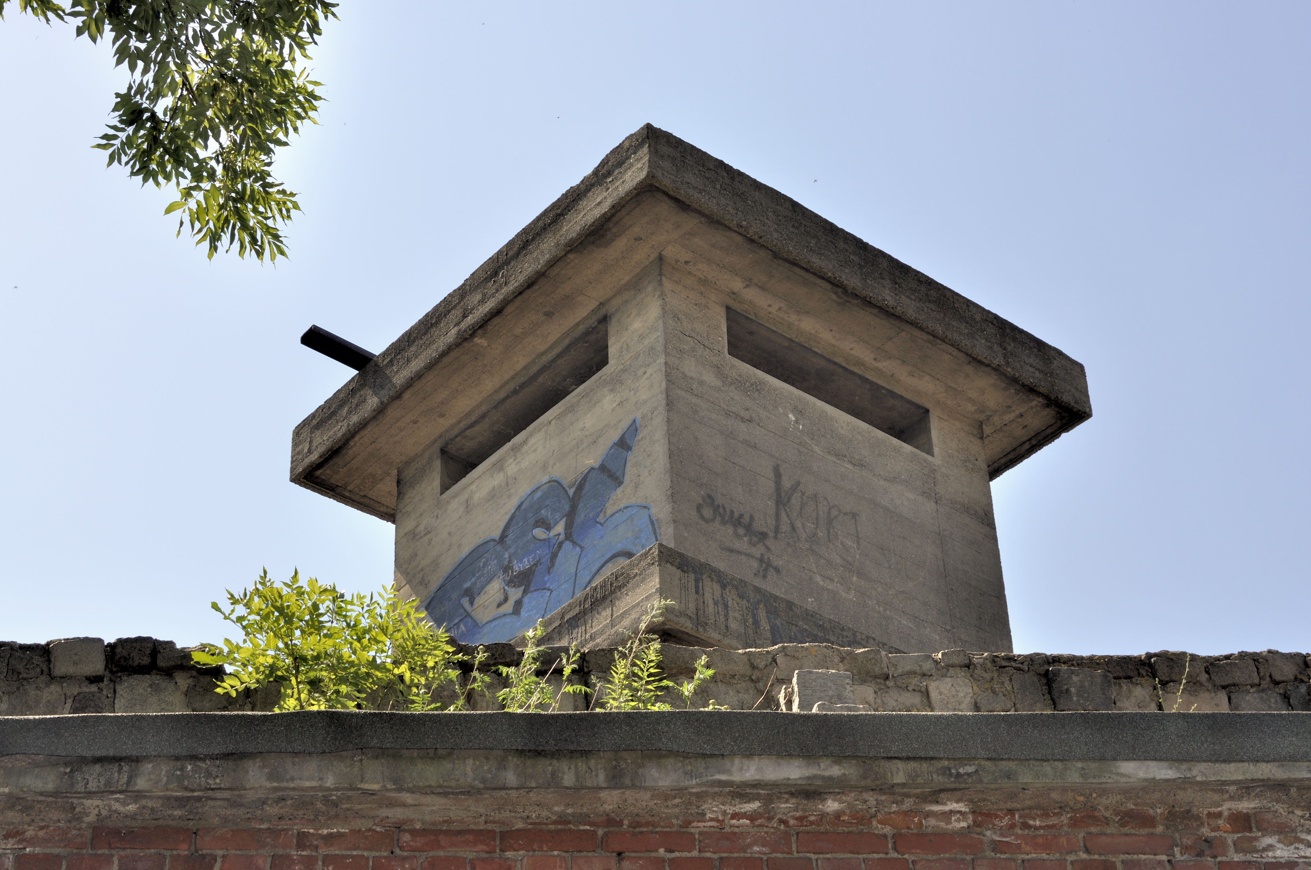 Picture taken in Gdańsk after Wikimania 2010 conference.